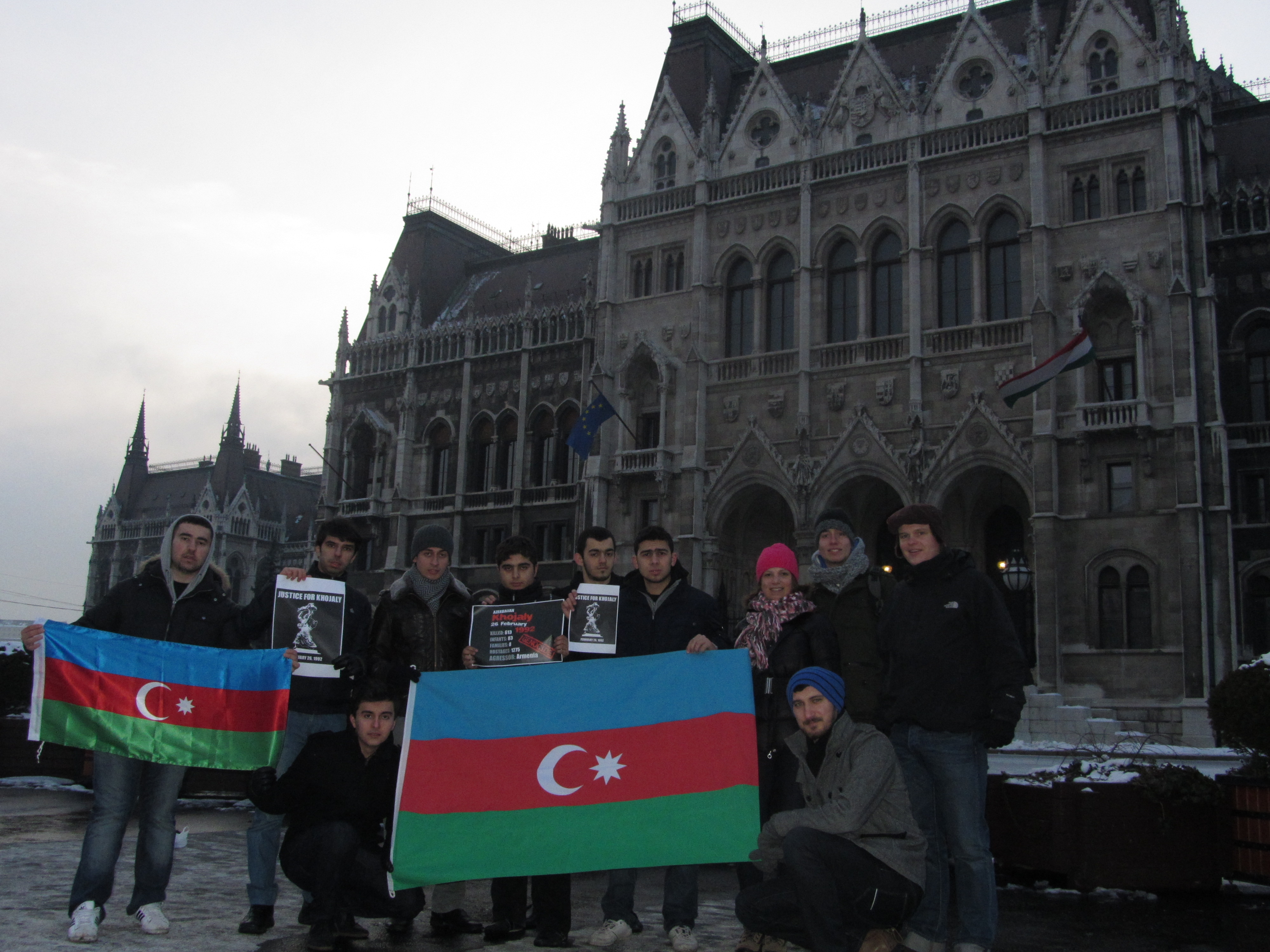 This photo was taken for raising public awareness about "Justice for Khojaly" campaign in front of Budapest Parliament (February 26, 2012)